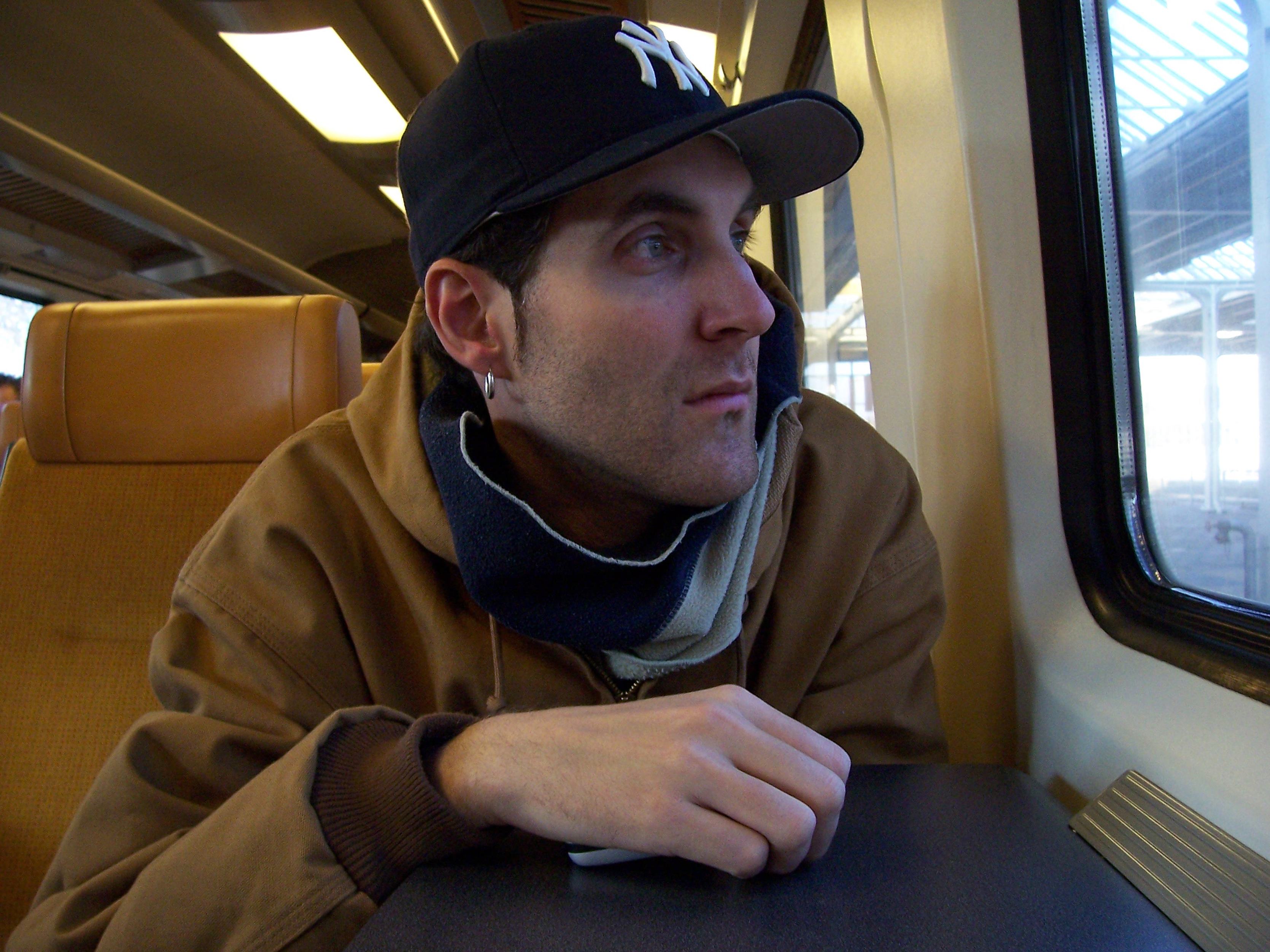 Photo taken by Nicolay Music